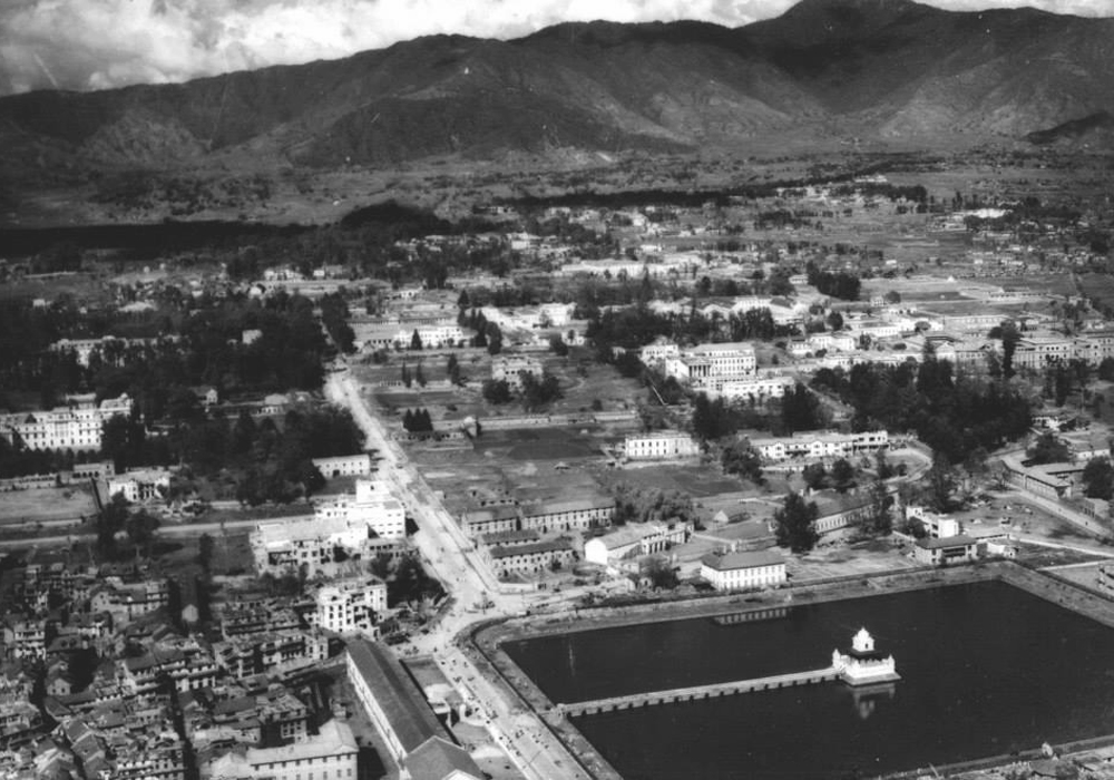 Bird's-eye view of Rani Pokhari, Kathmandu circa 1950.